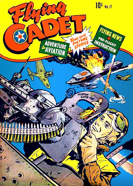 Cover, Flying Cadet #17 (Oct. 1944), from publishing company Flying Cadet, a precursor of St. John Publications.